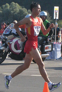 2013 IAAF World Champiomships in Moscow. 20 km walk men. Zhen Wang (CHN)